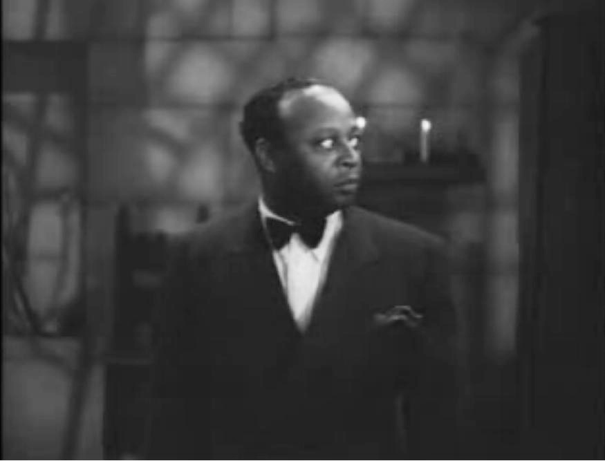 Mantan Moreland plays Jefferson 'Jeff' Jackson in the 1941 horror movie King of the Zombies. Screenshot.